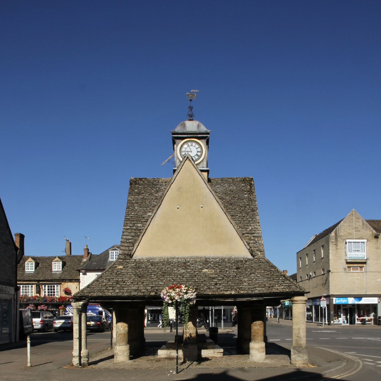 Butter Cross, Market Square, Witney, West Oxfordshire, seen from the east